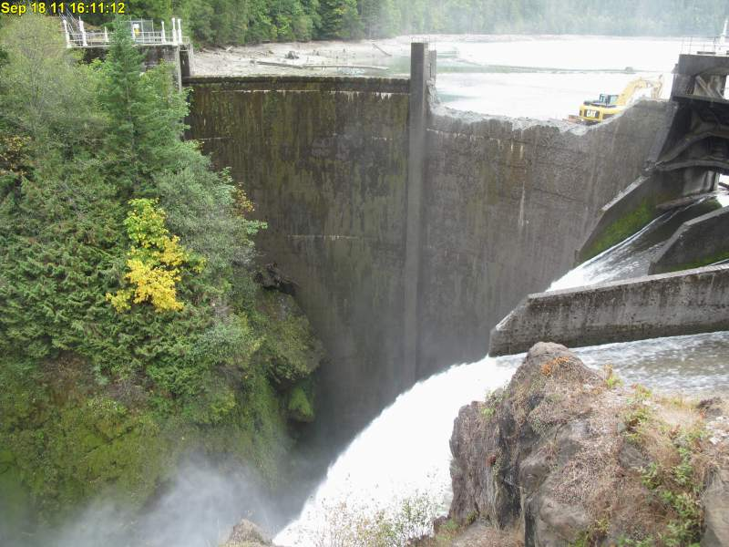 The first chunk missing out of the Glines Canyon (Upper) Dam an the Elwha River near Port Angeles, Washington. Taken by ONP webcam.